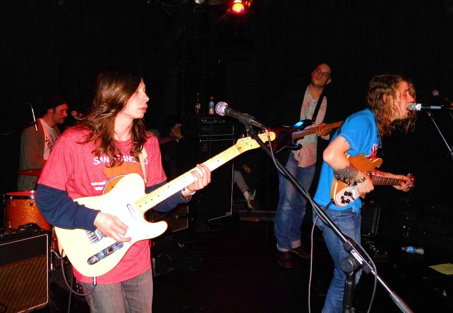 This is a photograph of the San Francisco-based rock band, Girls, performing live at The Bottletree Café in Birmingham, Alabama.